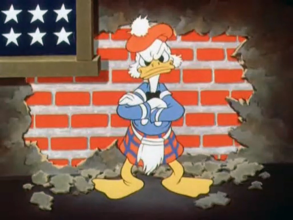 Caption from the public domain film The Spirit of '43